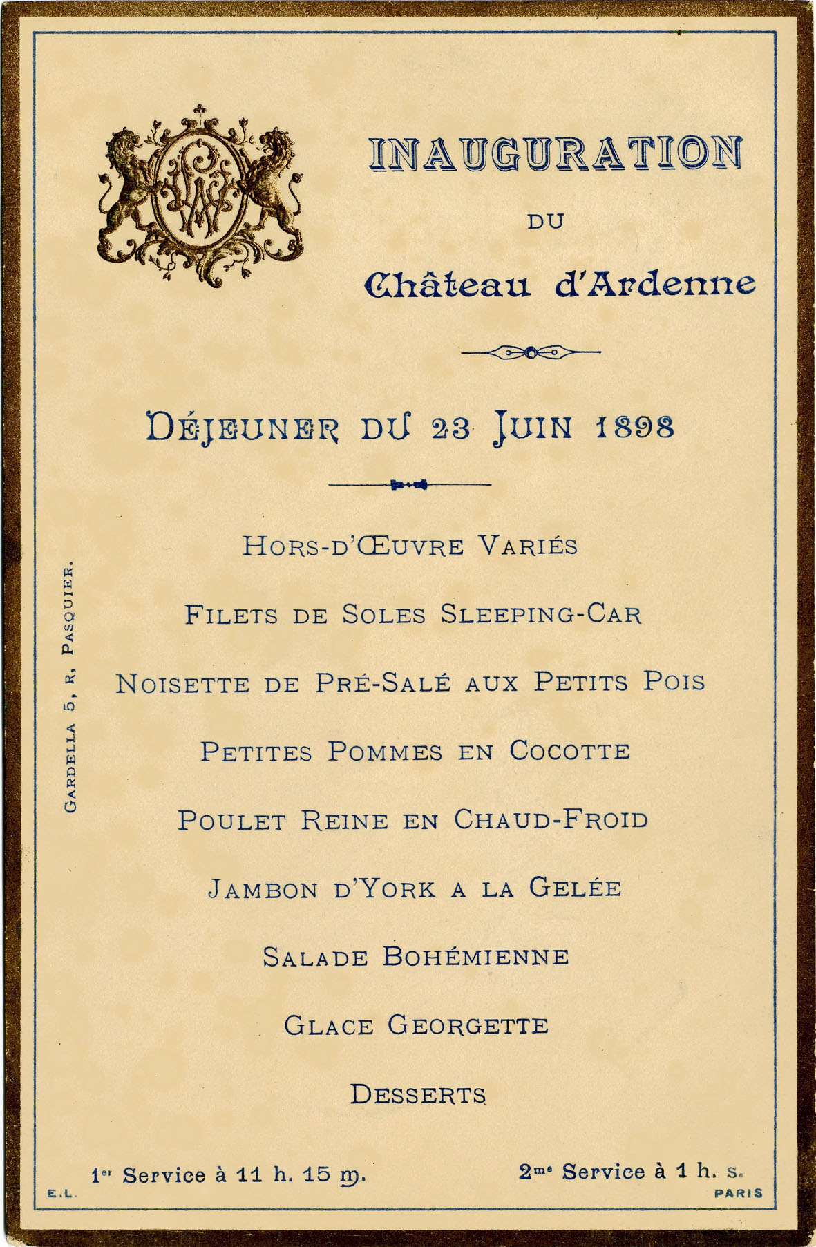 Menu served on board the French presidential train on June 23th, 1898 on a journey to Belgium for the opening of a luxury Hotel, the Ardenne Castle (it no longer exists)